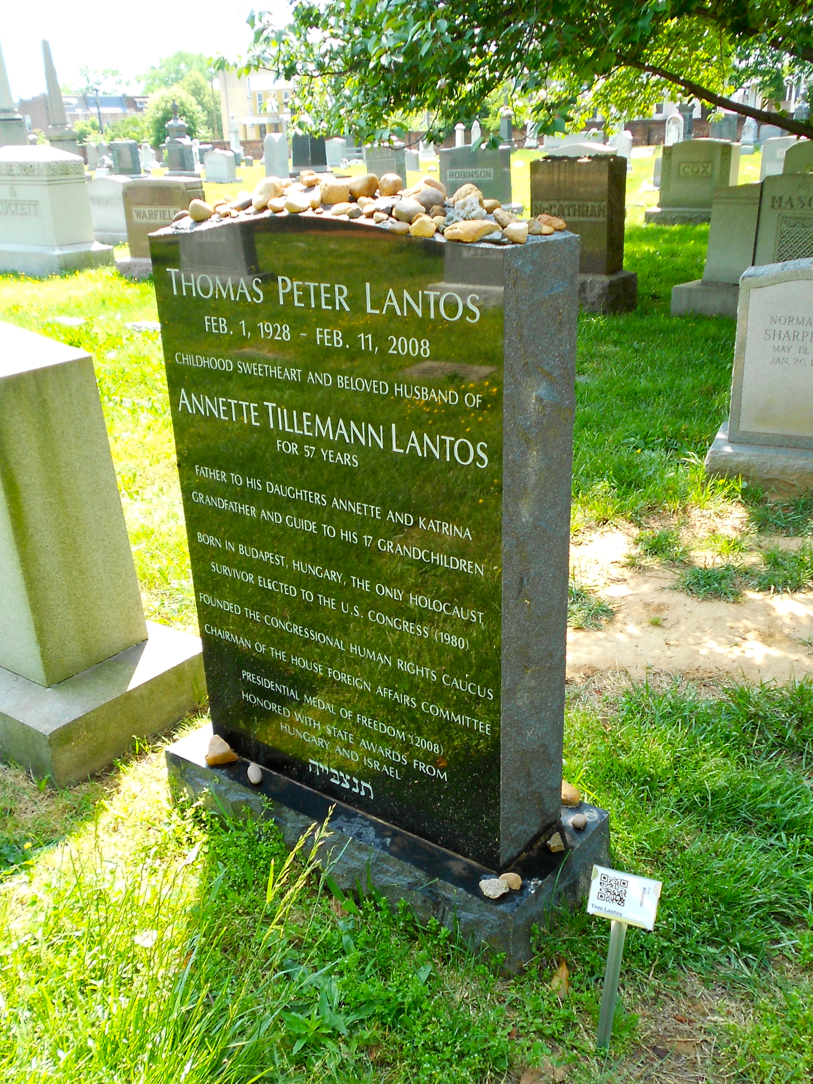 Grave of Representative Tom Lantos at the Congressional Cemetery, Washington, DC. Note the QR code.